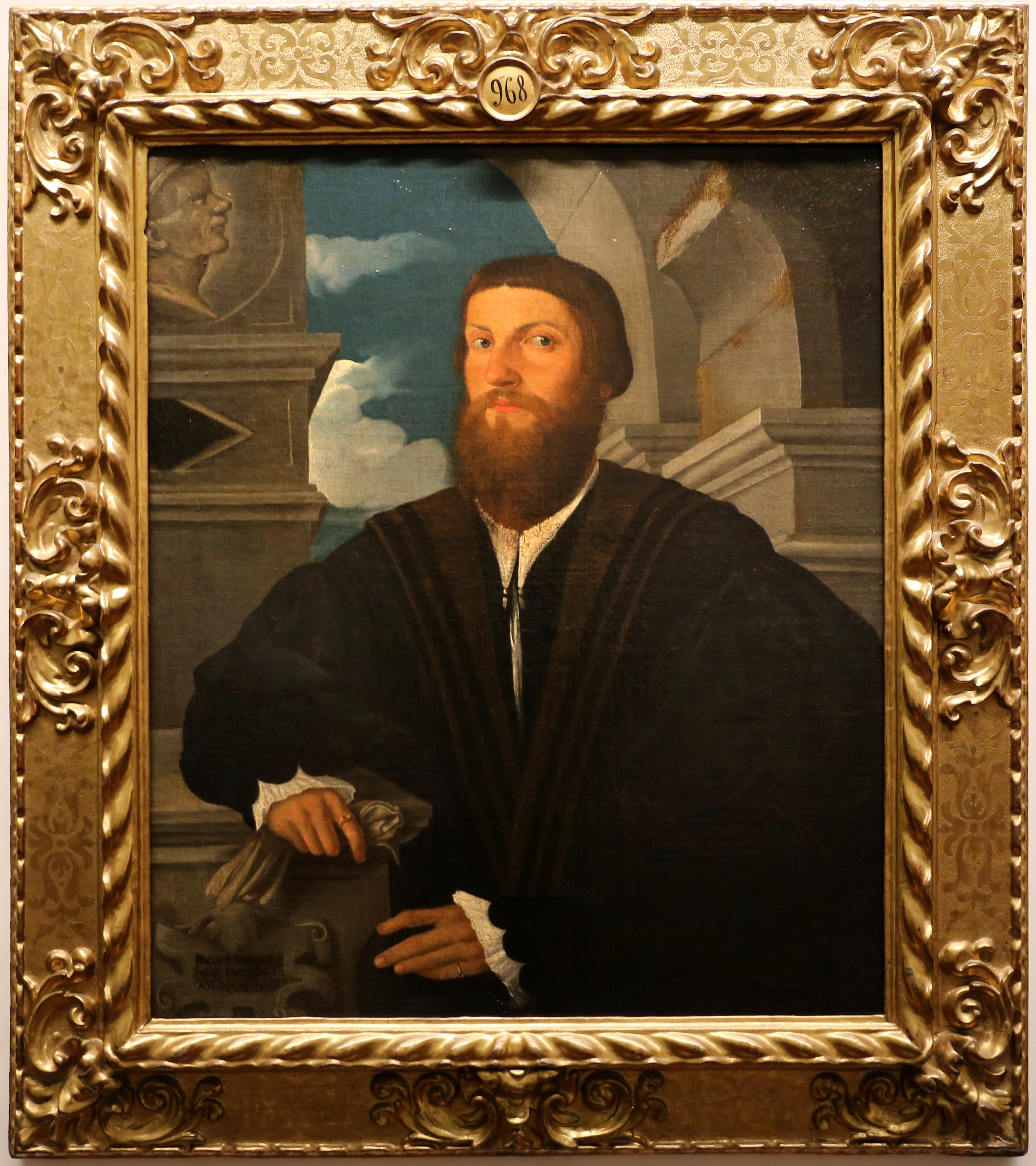 Paintings in the Uffizi Gallery